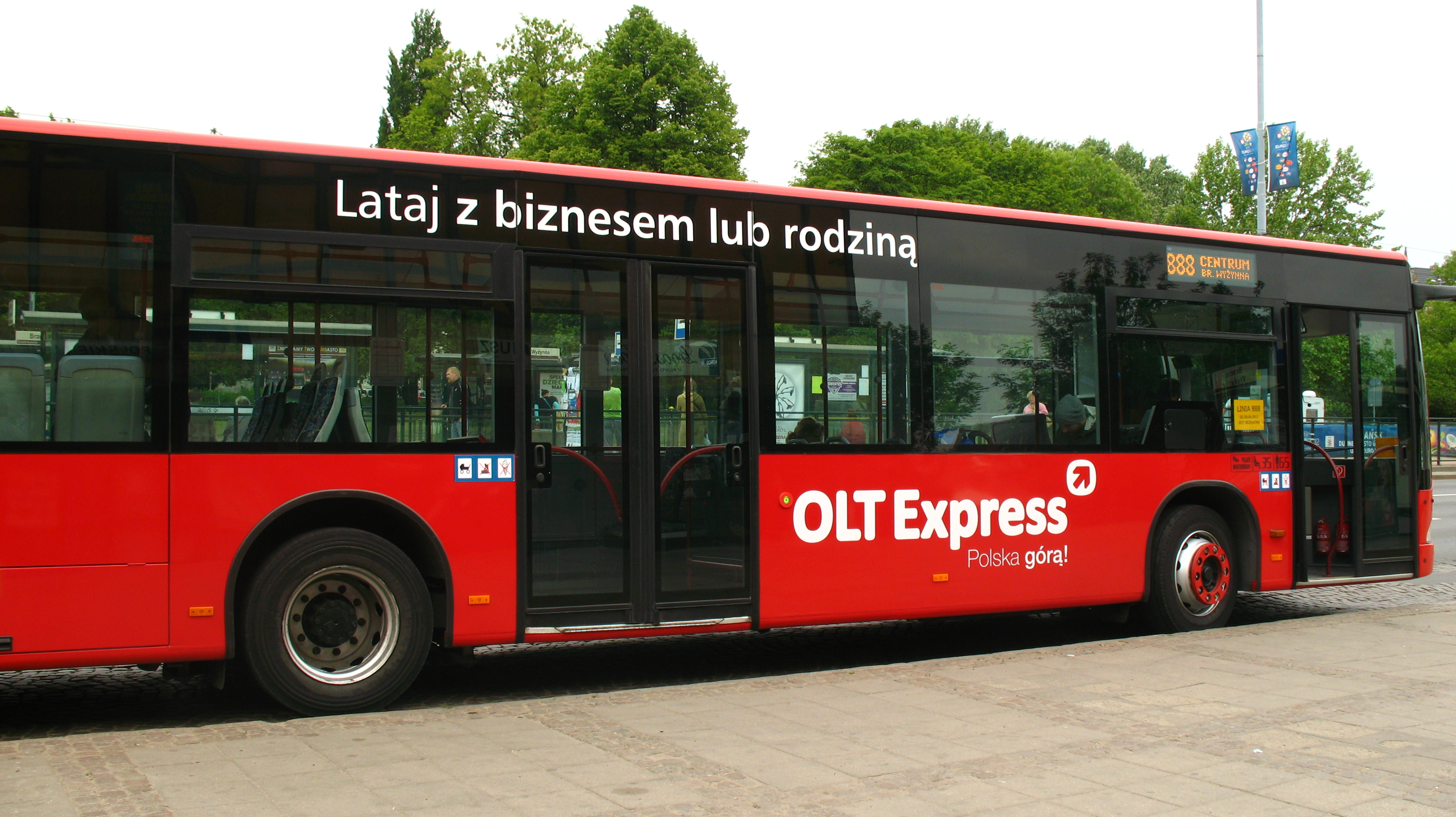 OLT Express bus line 888 in Gdańsk